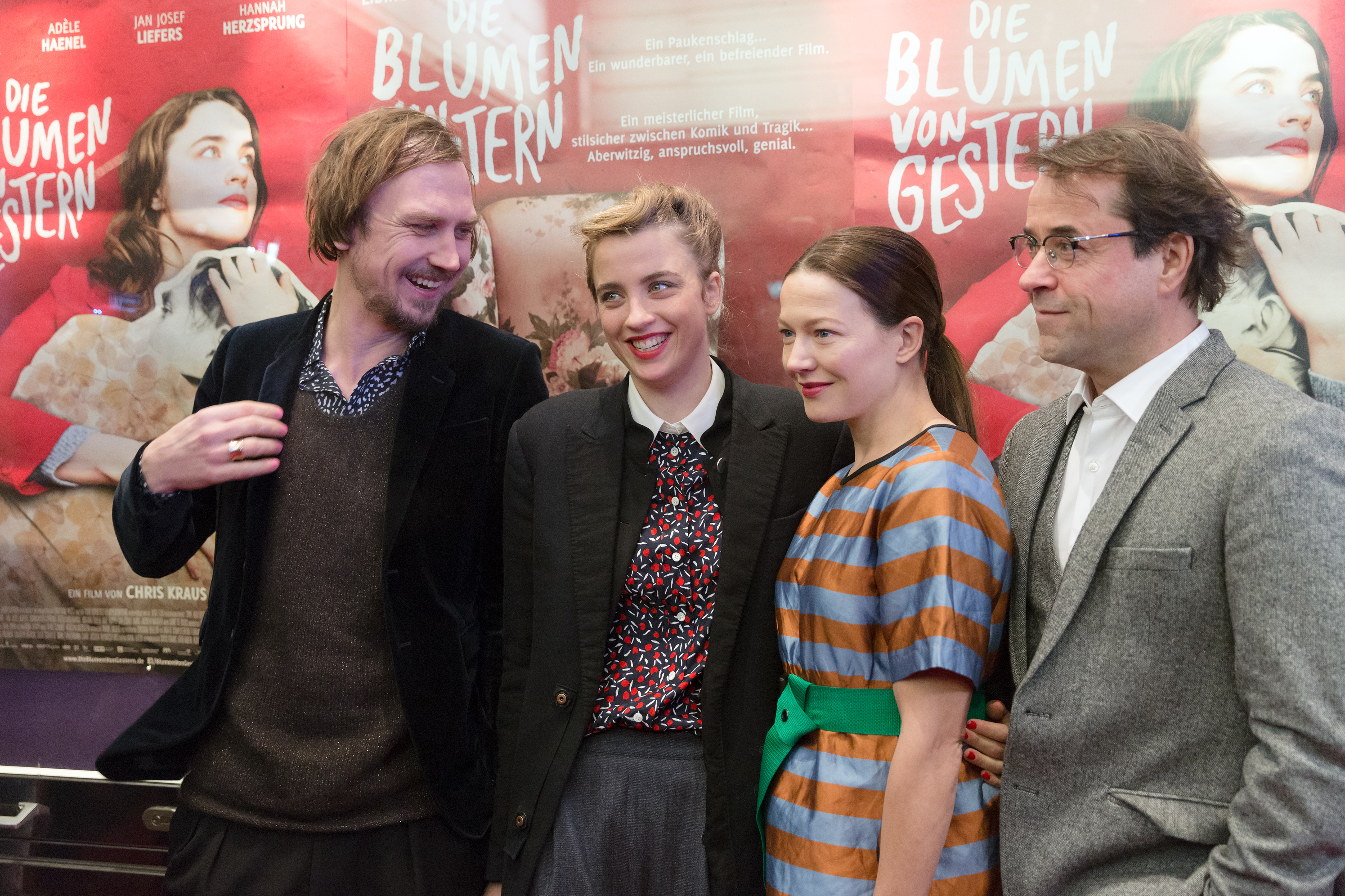 Lars Eidinger, Adèle Haenel, Hannah Herzsprung and Jan Josef Liefers at the Austrian premiere of Die Blumen von gestern at Gartenbaukino, Vienna, Austria.